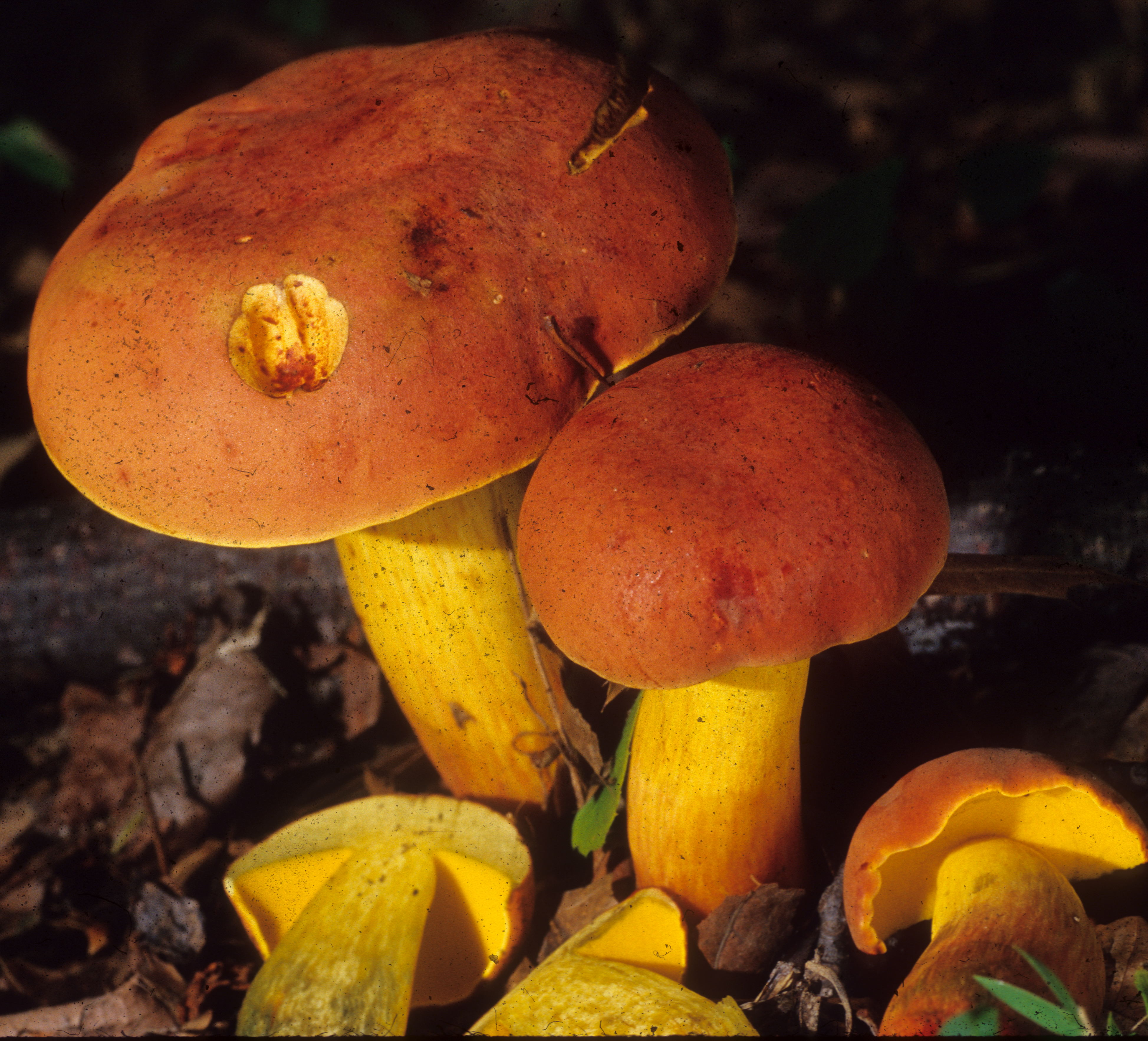 Boletus miniatopallescens Smith & Thiers Location: Thompson Park, East Liverpool, Ohio, USA For more information about this, see the observation page at Mushroom Observer.